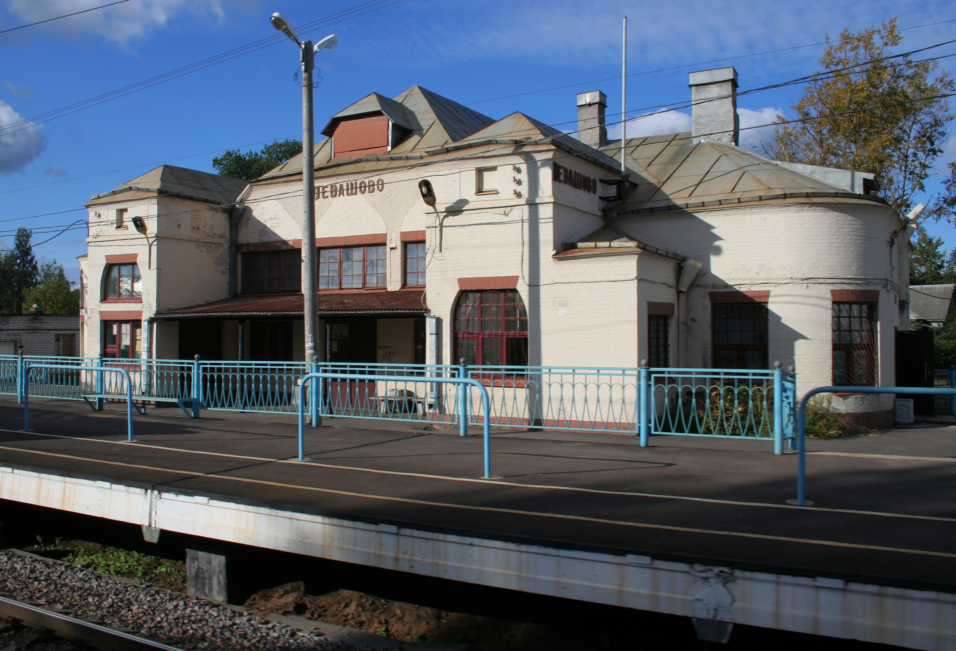 Saint Petersburg, Levashovo train station